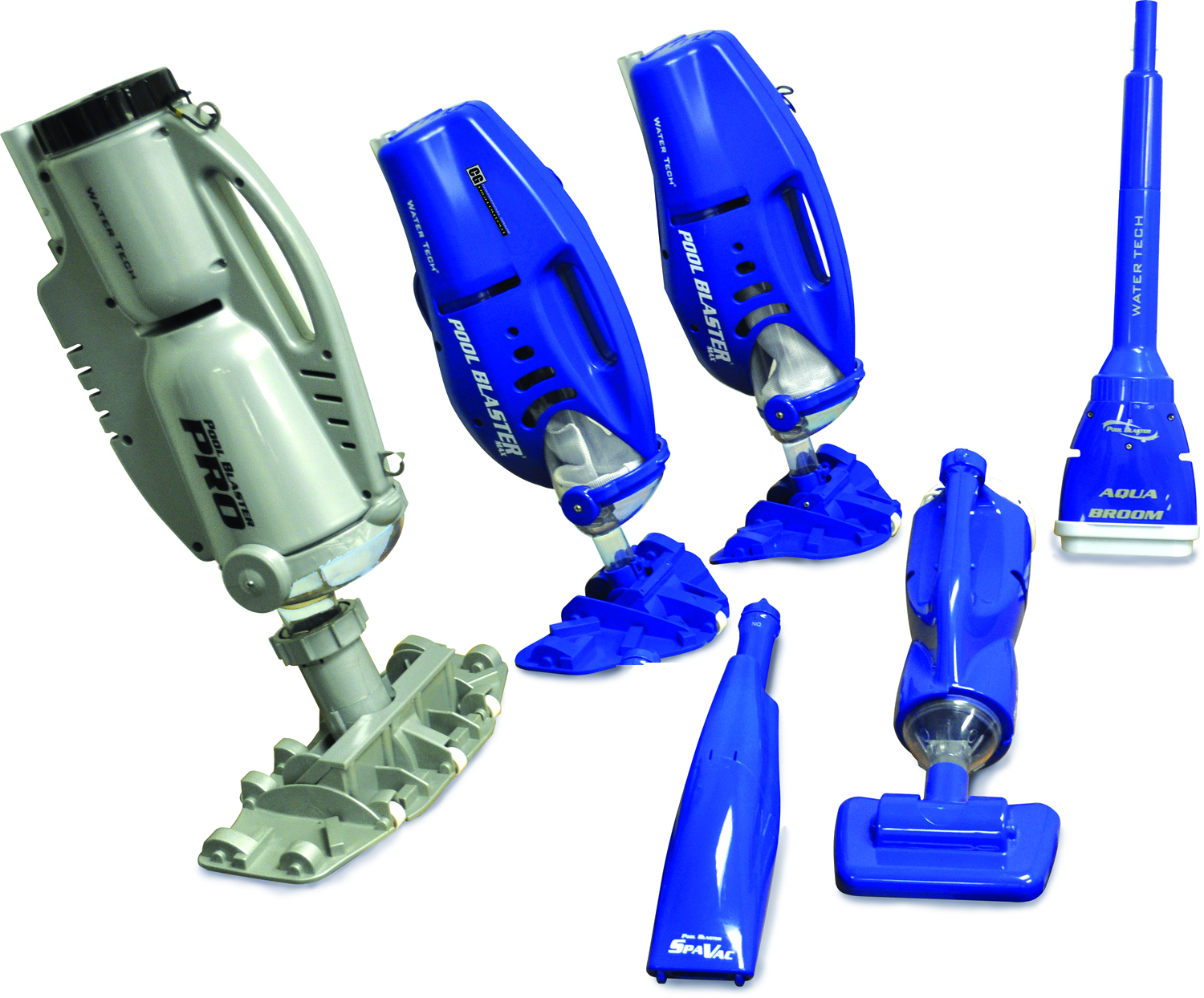 Battery-Powered, Handheld Extented Use Swimming Pool Vacuums